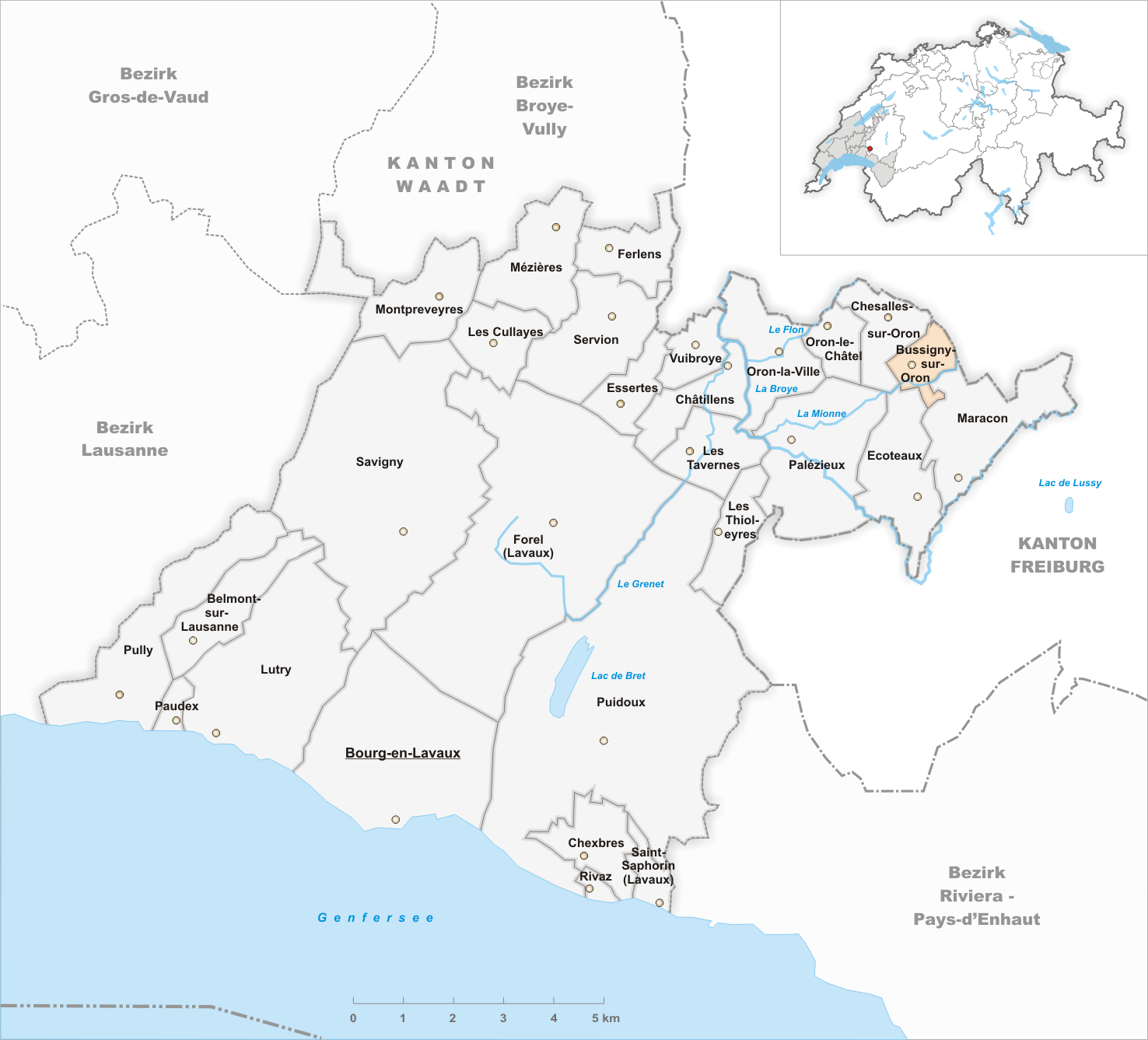 Municipality Bussigny-sur-Oron